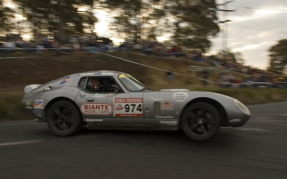 Peter Brock driving the Shelby Daytona Coupe in Targa Tasmania in which he lost his life in the Targa Wst